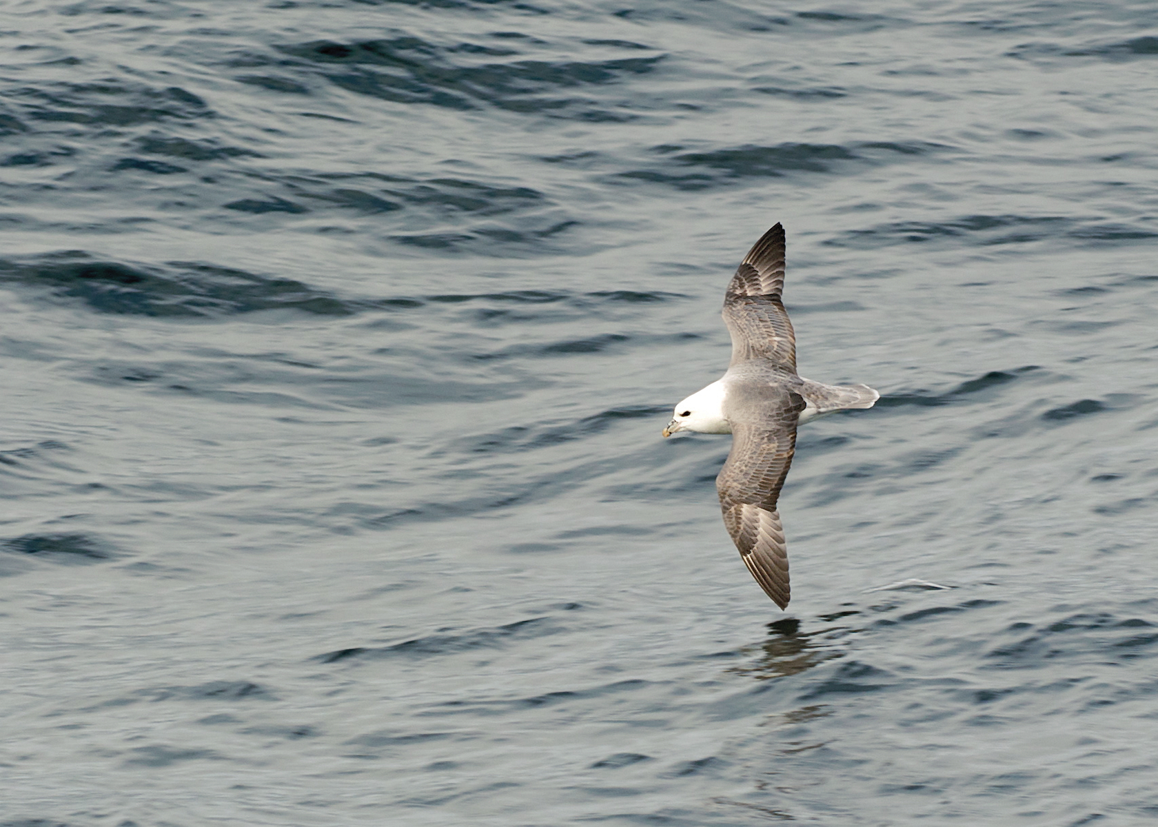 Northern fulmar (Fulmarus glacialis), Vesterålen, Norway